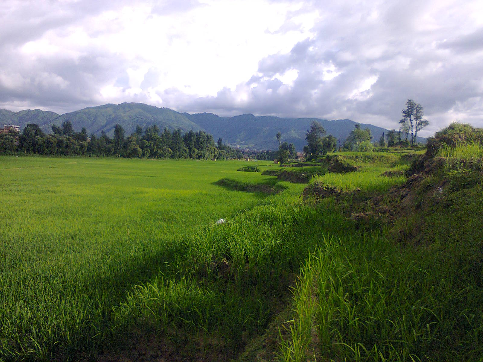 After Plotting Rice Plant